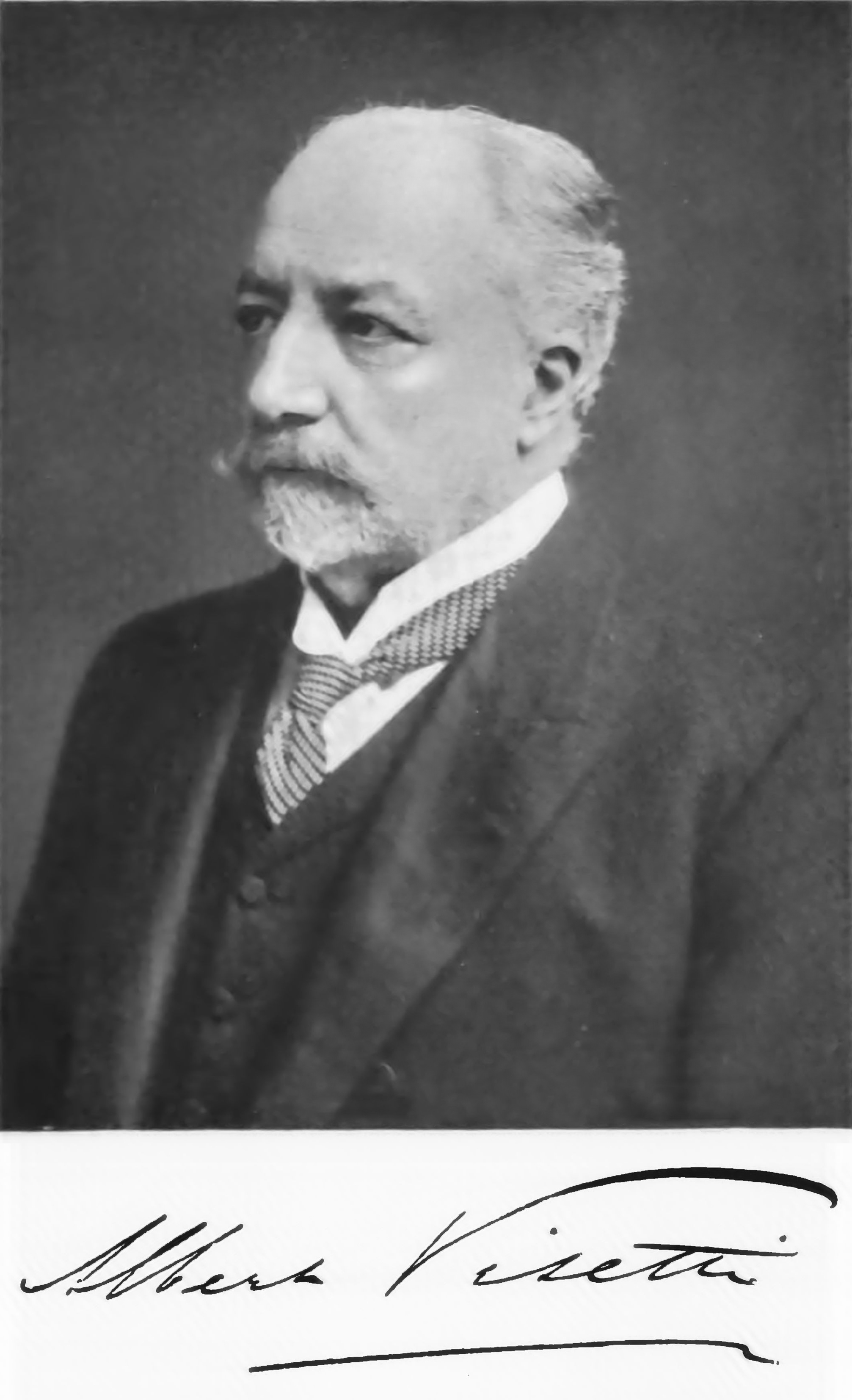 Albert Visetti was an English music teacher at the Royal College of Music and the Guildhall School of Music in the early 20th century